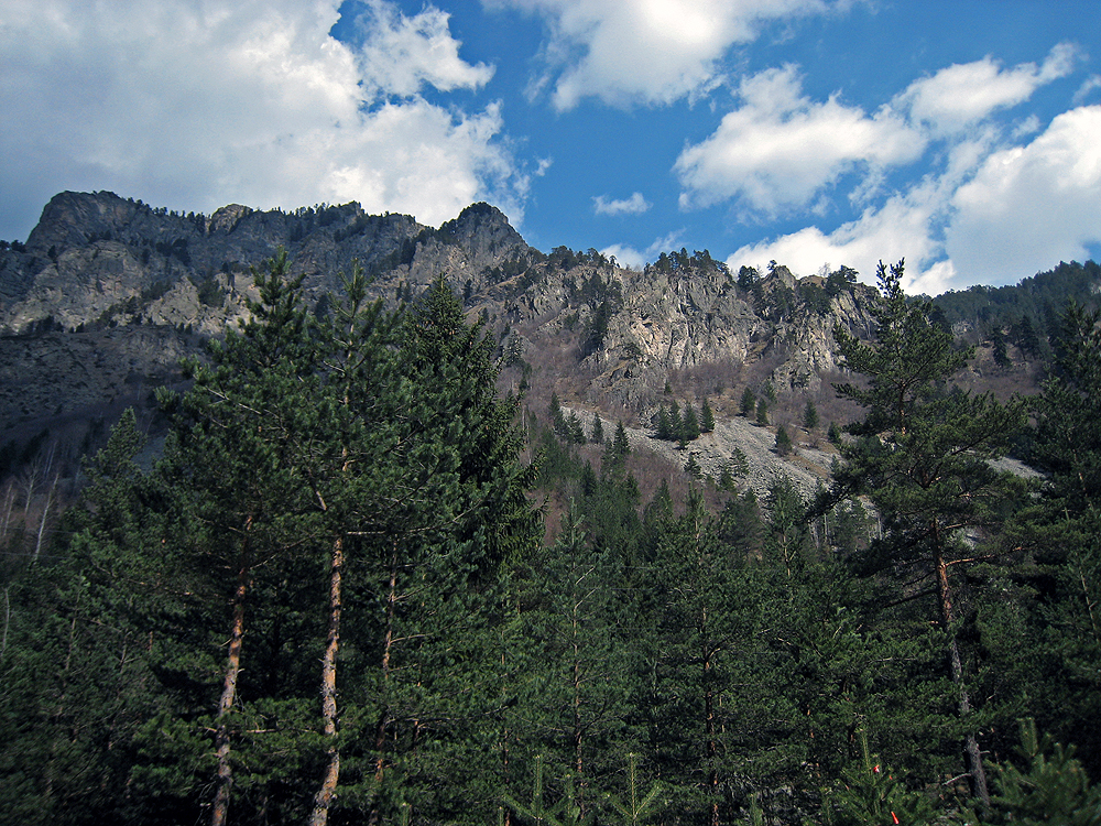 The Central Rila Reservе, with Pinus sylvestris var. hamata